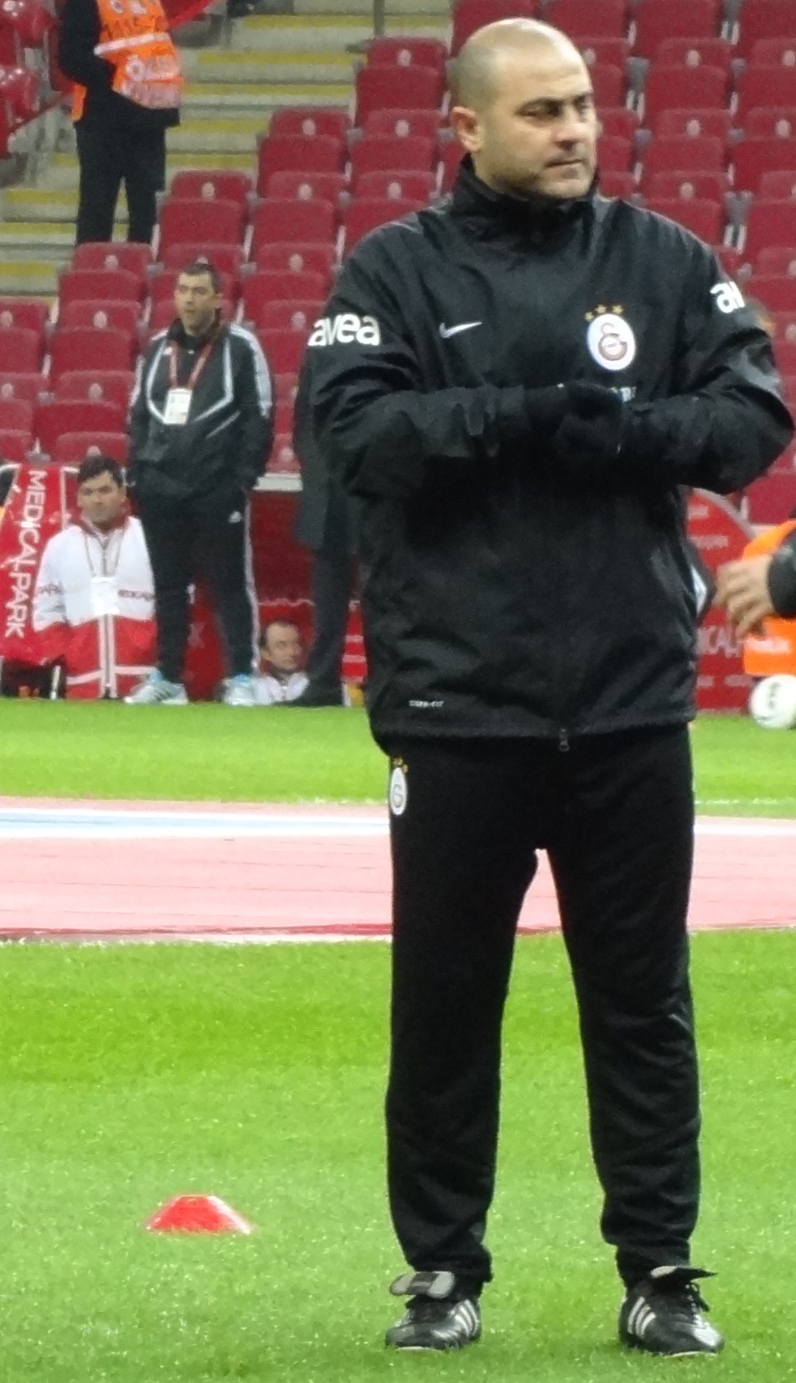 Hasan Sas galatasaray-Kayseri maçından önce